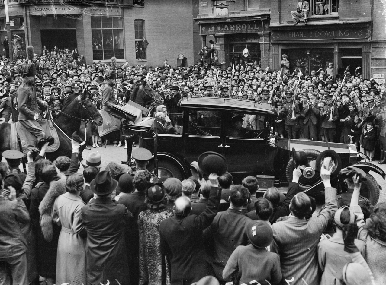 This is Douglas Hyde (in back of car holding top hat), leaving Dublin Castle with a cavalry escort following his inauguration as Ireland's first president. The car has just turned out onto Cork Hill/Dame Street at this point. The president stopped for 2 minutes outside the G.P.O. on O'Connell Street before continuing to his new home at Áras an Uachtaráin (formerly the Vice-Regal Lodge, home of the Lord Lieutenant of Ireland) in the Phoenix Park. Date: Saturday, 25 June 1938 View a slideshow of photos from our Independent Newspapers Collection all taken in Dublin on the day of Douglas Hyde's inauguration. NLI Ref.: IND_H_3312